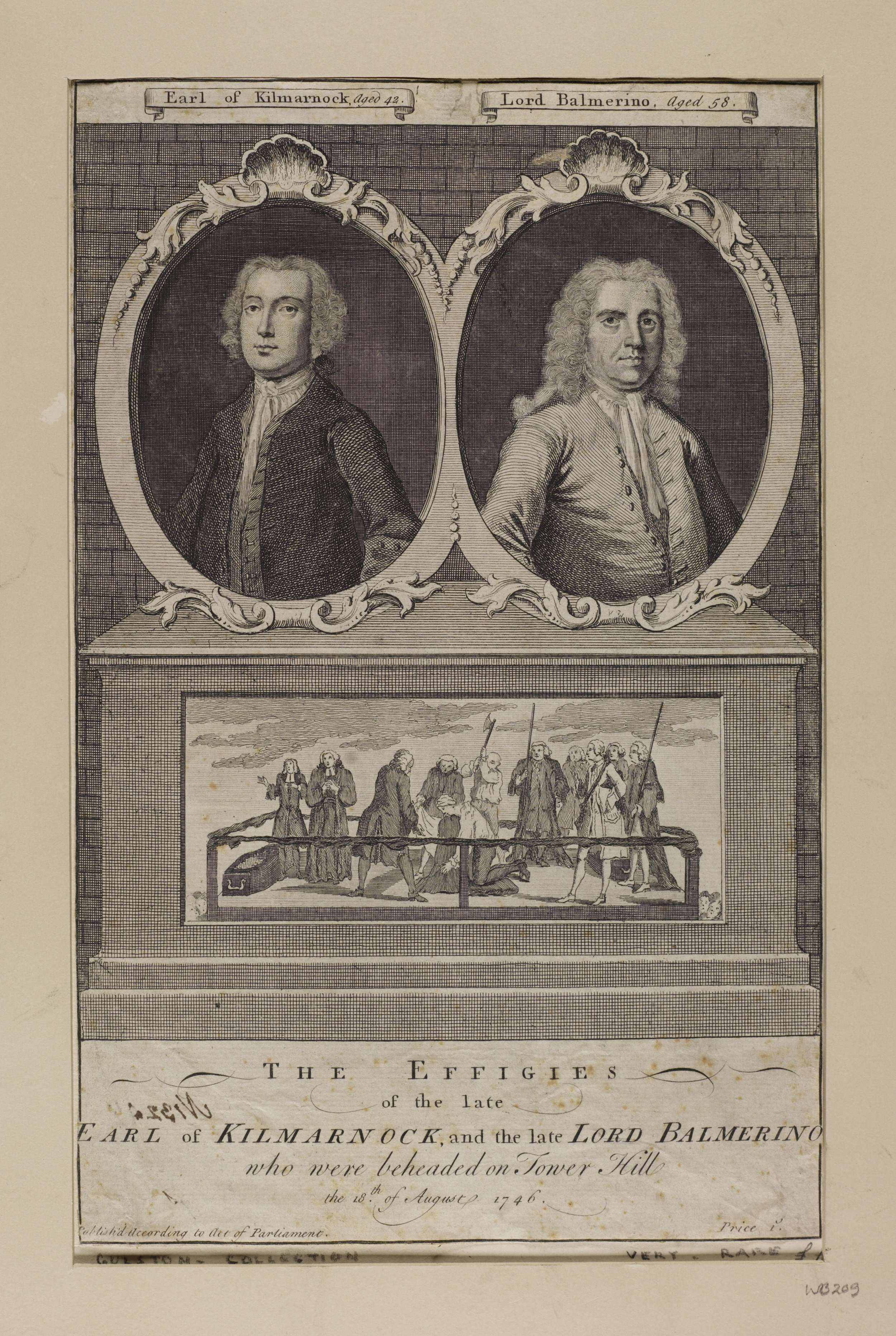 Effigies and execution of William Boyd, 4th Earl of Kilmarnock and Arthur Elphinstone, Lord Balmerino. Portraits of Earl of Kilmarnock (aged 42) and Lord Balmerino (aged 58) with a scene of execution below those two oval portraits and then the text of the title, followed by "Published According to Act of Parliament Price1.s" with handwritten note on bottom, off of paper, "Gulston Collection Very Rare £…"